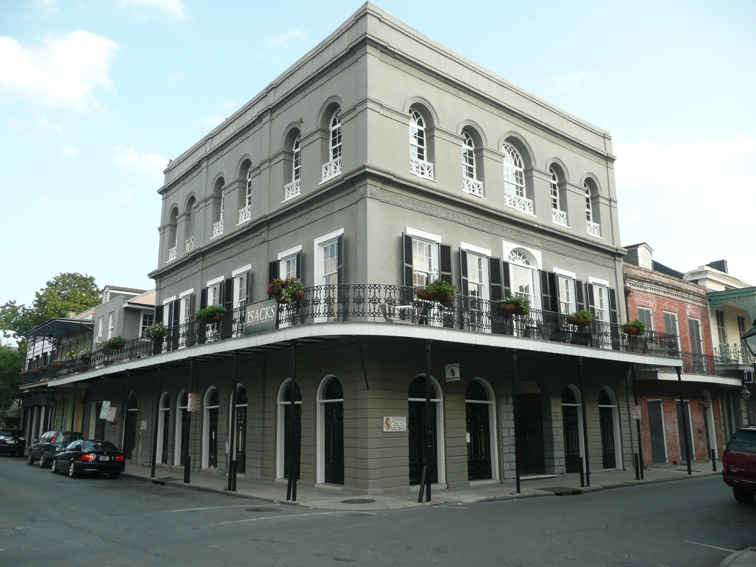 1140 Royal Street, New Orleans. Built 1832. It is reputed to be haunted by mistreated slaves - a story stemming from a fire in the building in 1834 when neighbours helping to save furniture from the flames reputedly found tortured slaves belonging to Madame LaLaurie chained up in their quarters. LaLaurie's house was subsequently sacked by an outraged mob of New Orleans citizens, and it is thought that she fled to Paris, where she died. Nicolas Cage owned the building from 2007-9.